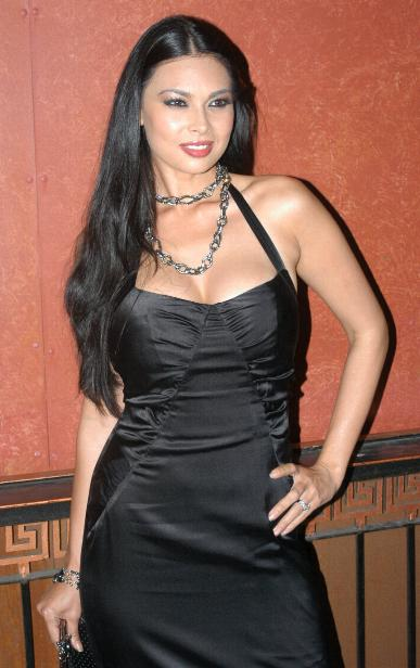 April 5 2007: XRCO Awards 2007.